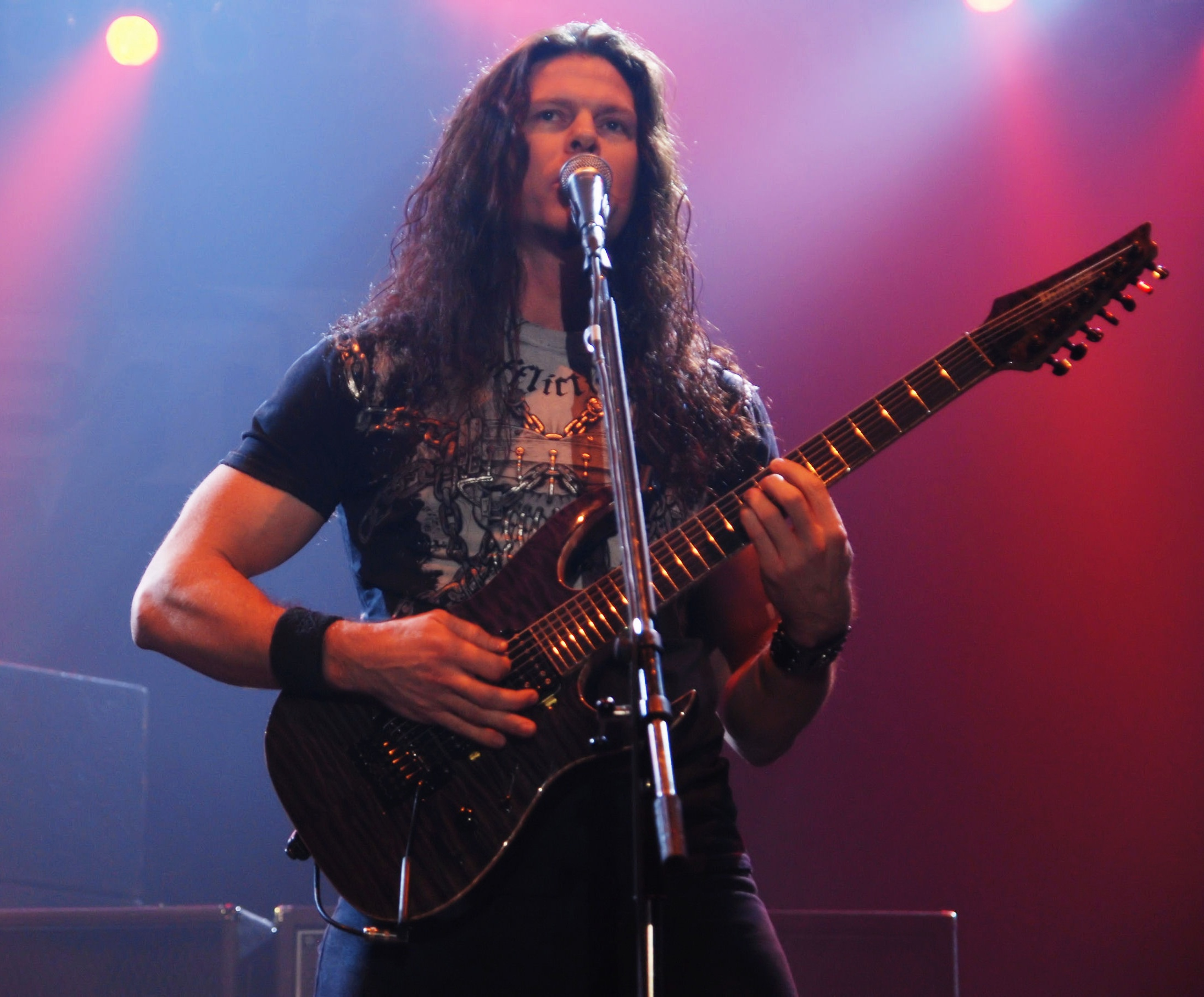 Chris Broderick from Megadeth during Metalmania 2008 festival